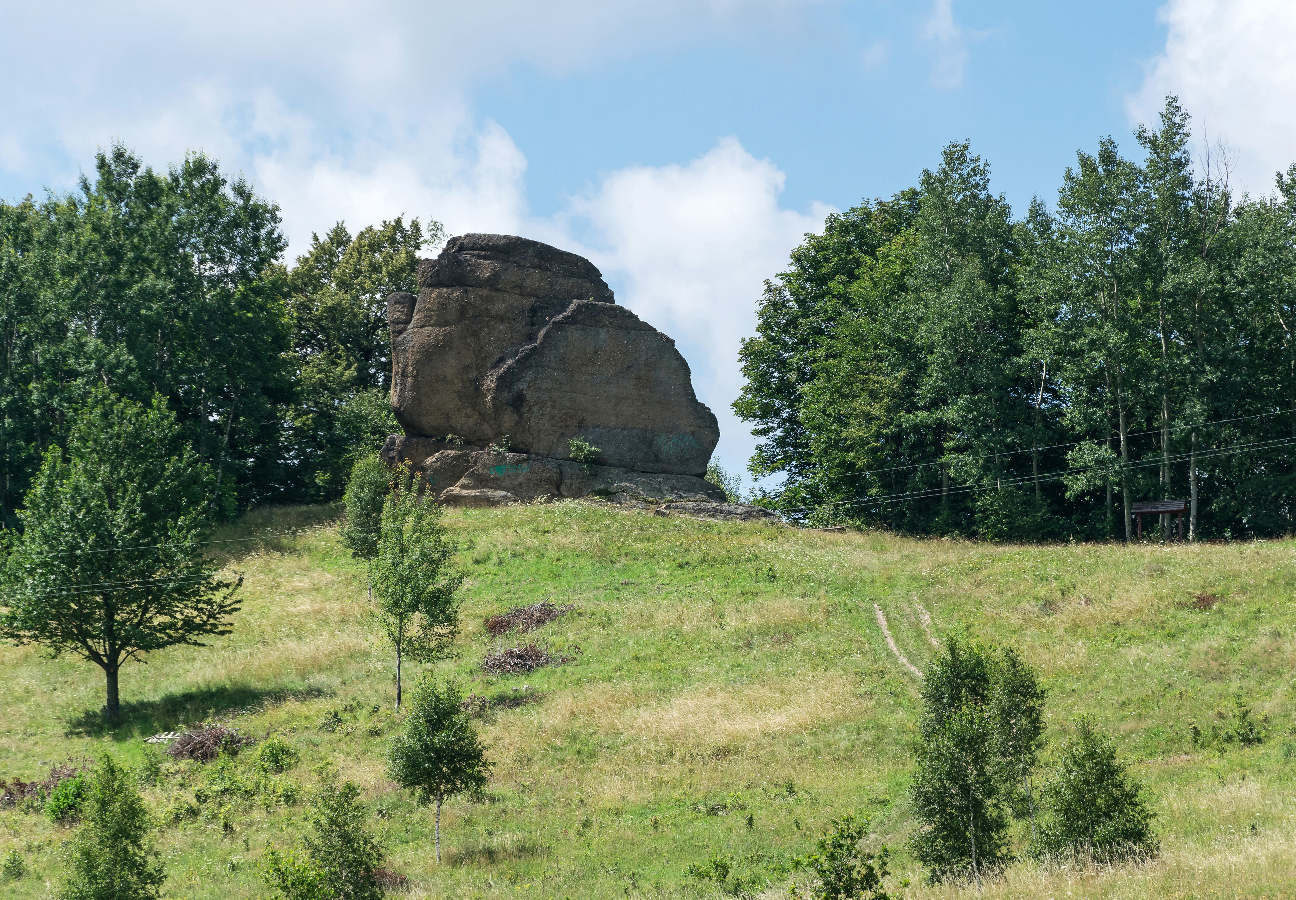 Pasterskie Skały